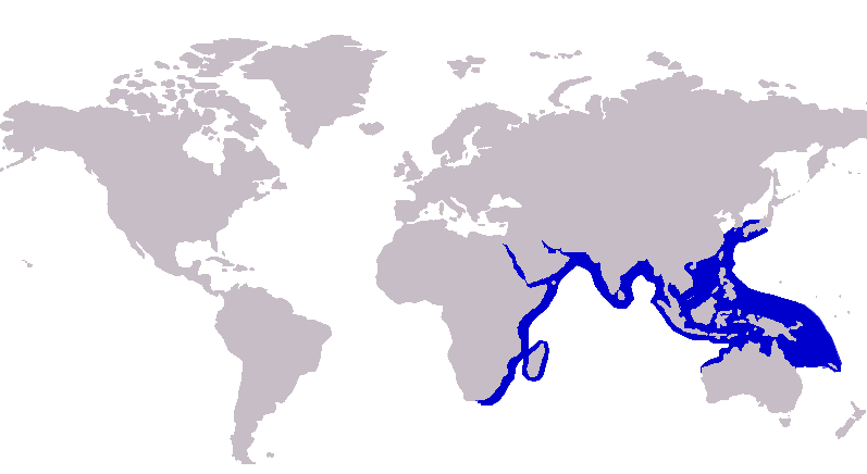 Distribution of coastal trevally, Carangoides coeruleopinnatus using map based on GDFL image